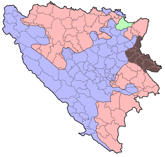 Municipalities in Bosnia and Herzegovina, Vlasenica region (RS) highlighted